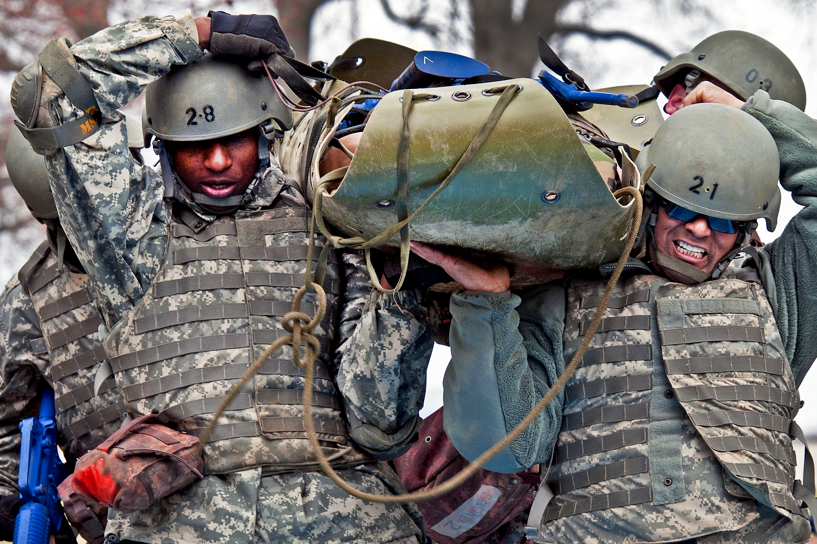 Staff Sgt. James Liggon, Staff Sgt. Ramon Delgado and two other members of the 316th ESC carry a simulated casualty through an obstacle on a SKED litter during the physical evaluation portion of the Combat Lifesaver Course at Fort Dix, N.J., March 15. (U.S. Army Photo by Army Sgt. Peter J. Berardi, 316th Sustainment Command)